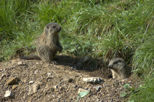 The pair of young M. marmota latirostris in front of the burrow, Tatra Mauntains